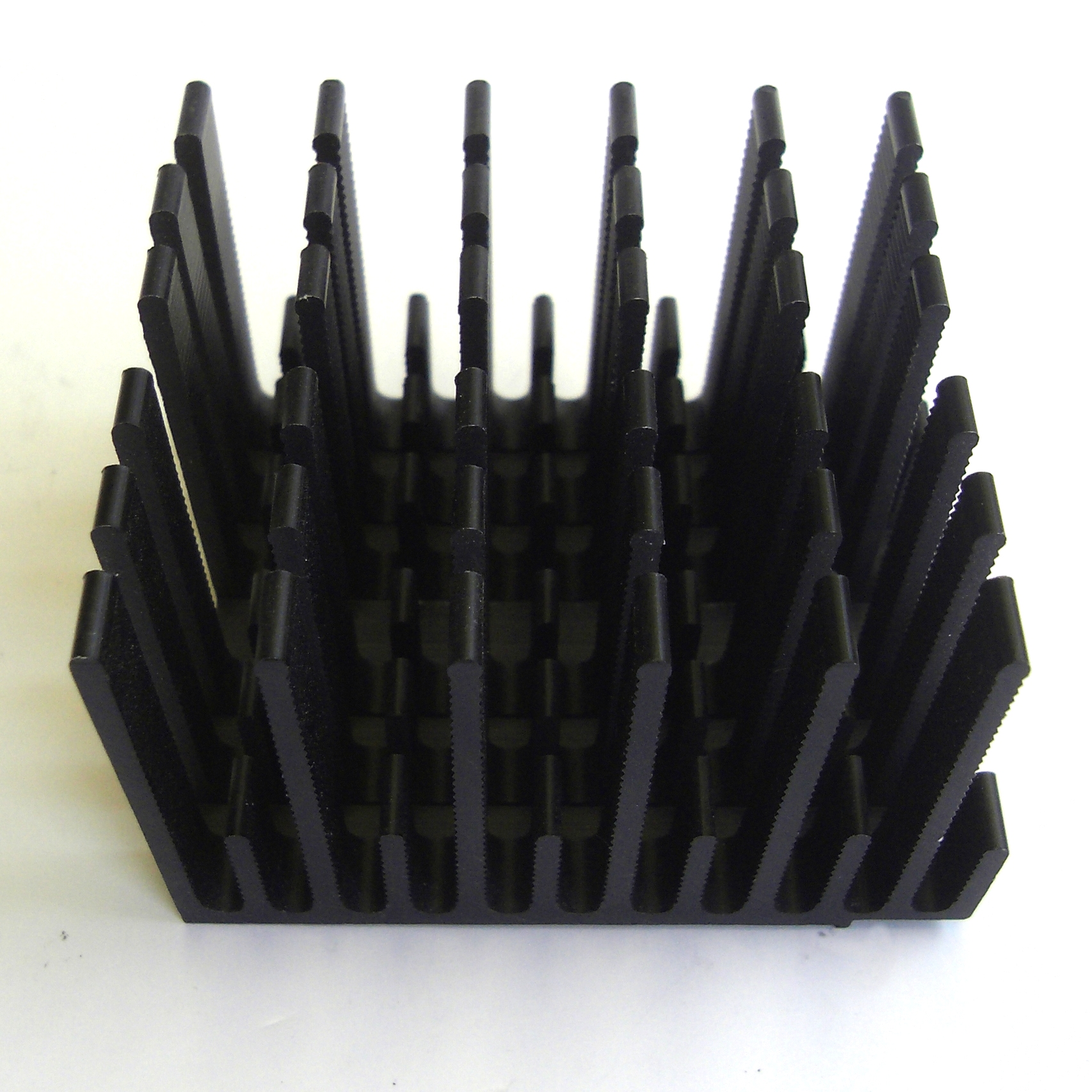 Computer heatsink